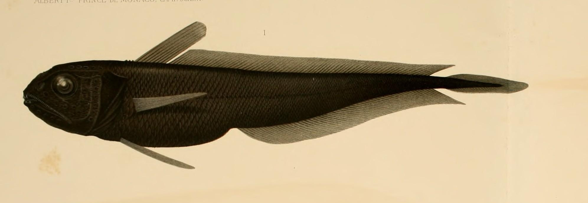 Melanonus gracilis Günther, 1878